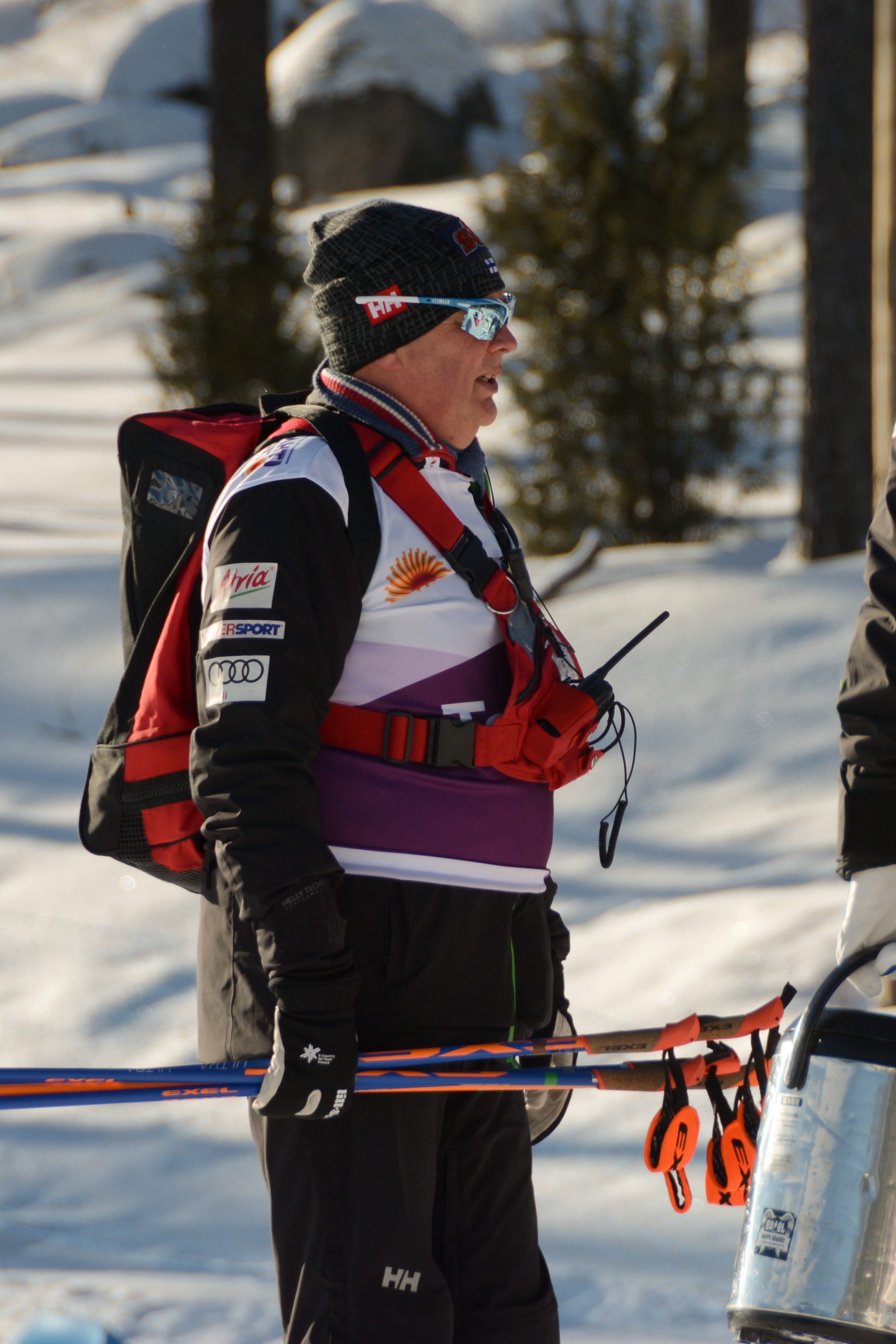 Reijo Jylhä the head coach of national cross-country skiing team Finland during FIS Nordic World Ski Championships 2017 in Lahti, Finland